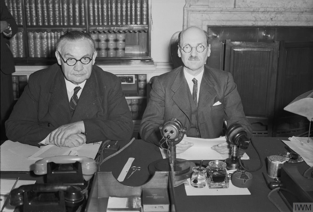 Prime Minister Clement Attlee (right) and Foreign Secretary Ernest Bevin photographed at 10 Downing Street at midnight on 14 August 1945. They had just announced, in a speech broadcast to Britain and the Empire, the news of the Japanese surrender.